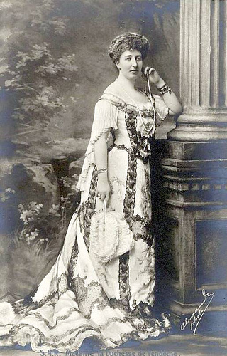 Princess Henriette of Belgium (1870-1948), Duchess of Vendôme